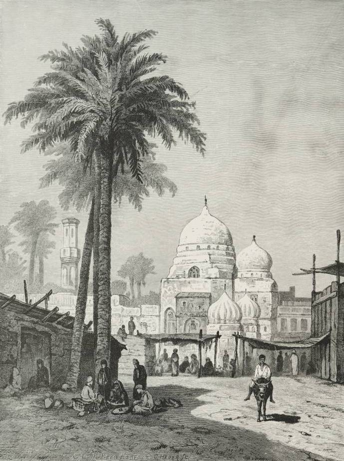 A view of a street in old Cairo, with worn buildings, canvas awnings, and a mosque.